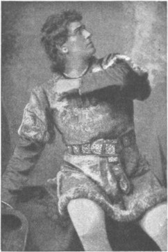 Photo of Ernst Kraus (1863-1941), German opera singer.